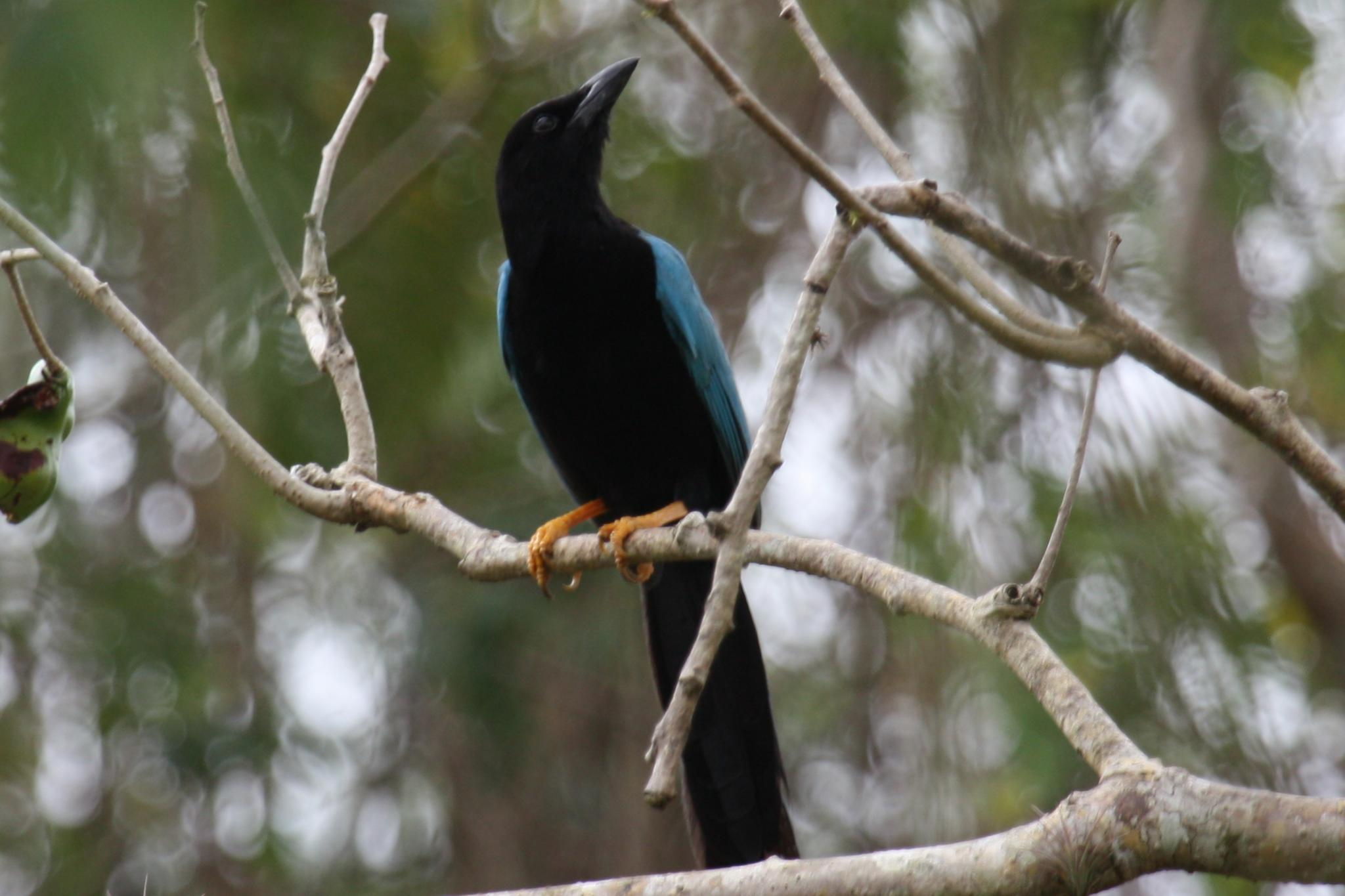 Yucatan Jay in Mexico.